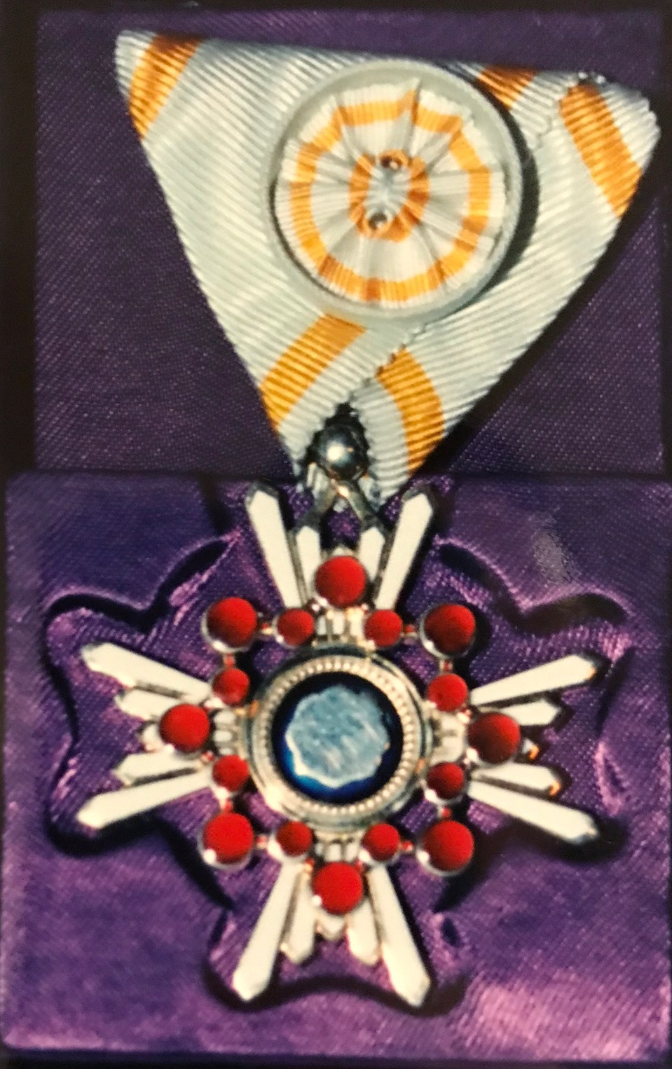 Japan's "Order of the Sacred Treasure" (4th Class) awarded to Floyd Schmoe in 1988, for his work building homes in Hiroshima after WWII.